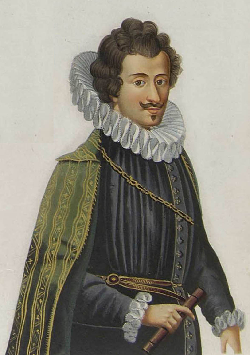 Alfonso III d'Este, in ducal clothes.